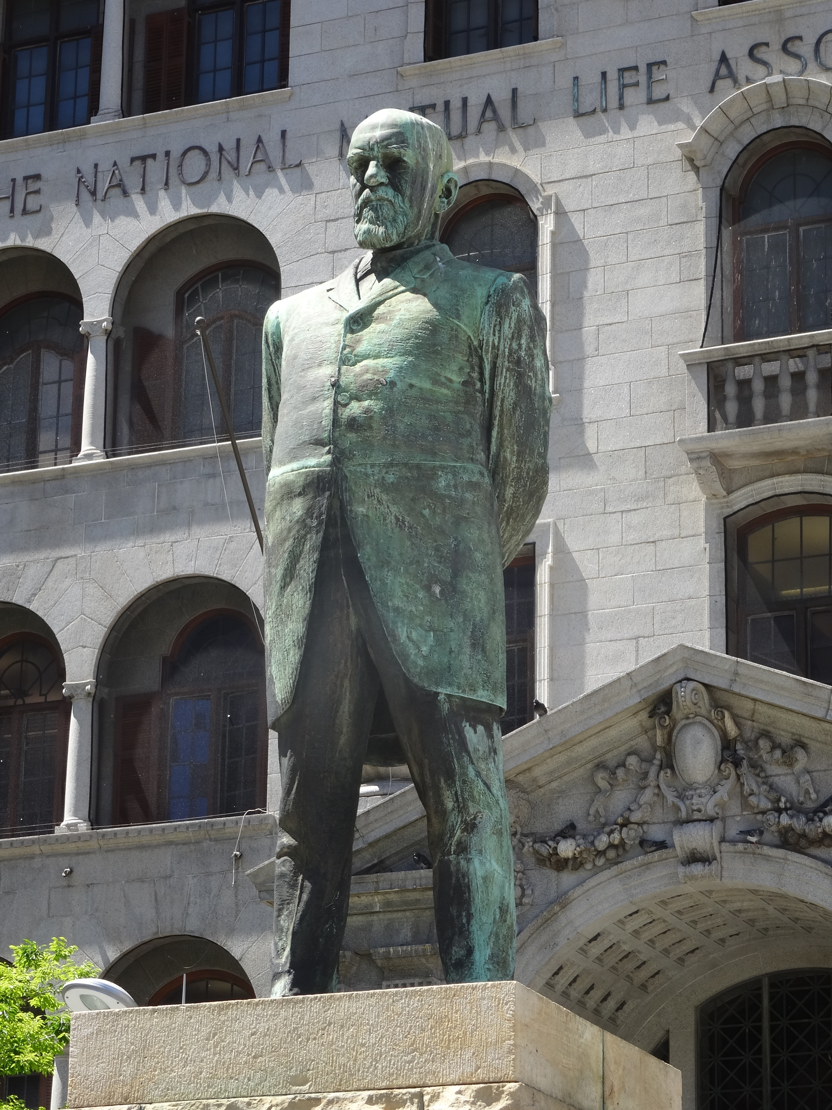 JH Hofmeyr Statue, Cape Town